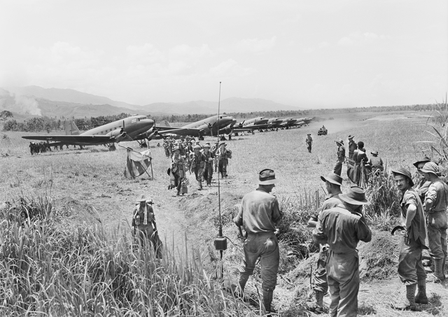 Australian soldiers from the 2/16th Battalion arriving at Kaiapit by air